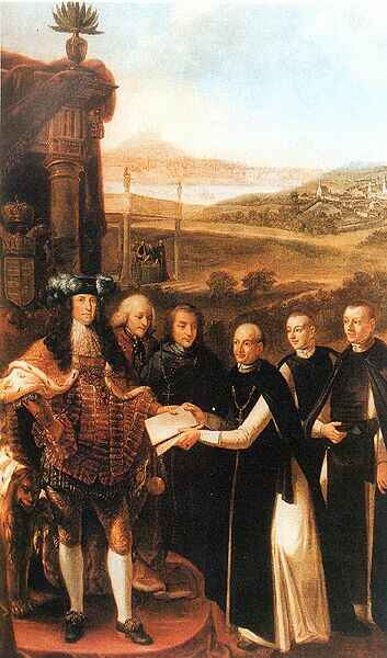 Holy Roman and Habsburg Emperor Charles award charter for the Cistercian Abbot Robet Leeb. Painting belongs the Heiligenkreuz Museum, displayed in the anteroom to the prelature.